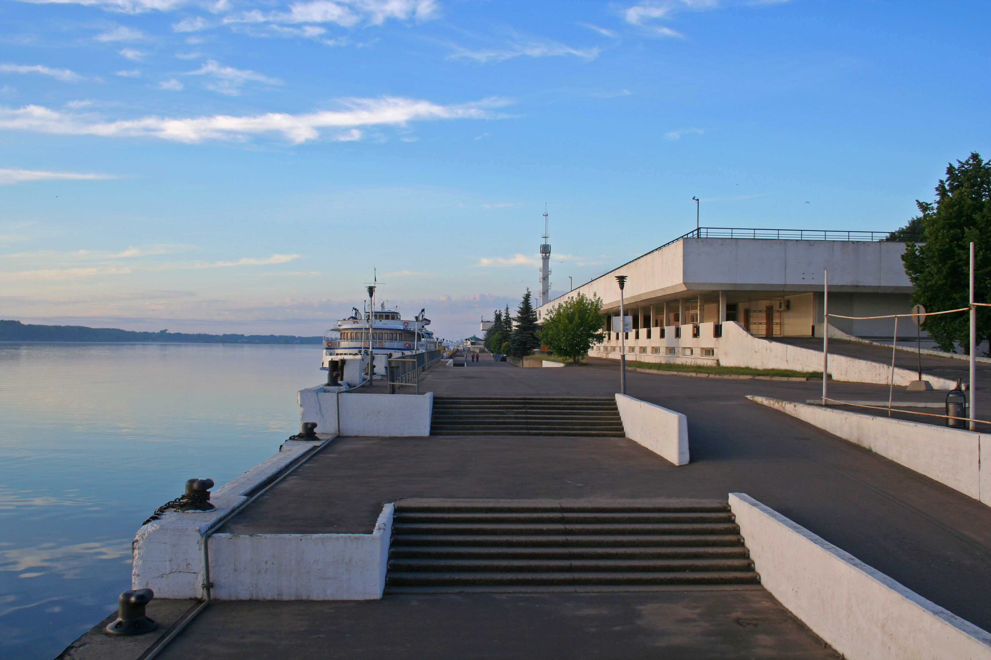 River ships terminal and docks in Yaroslavl, Russia